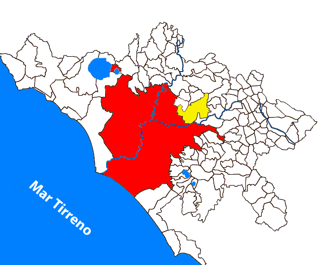 Comune di Roma position